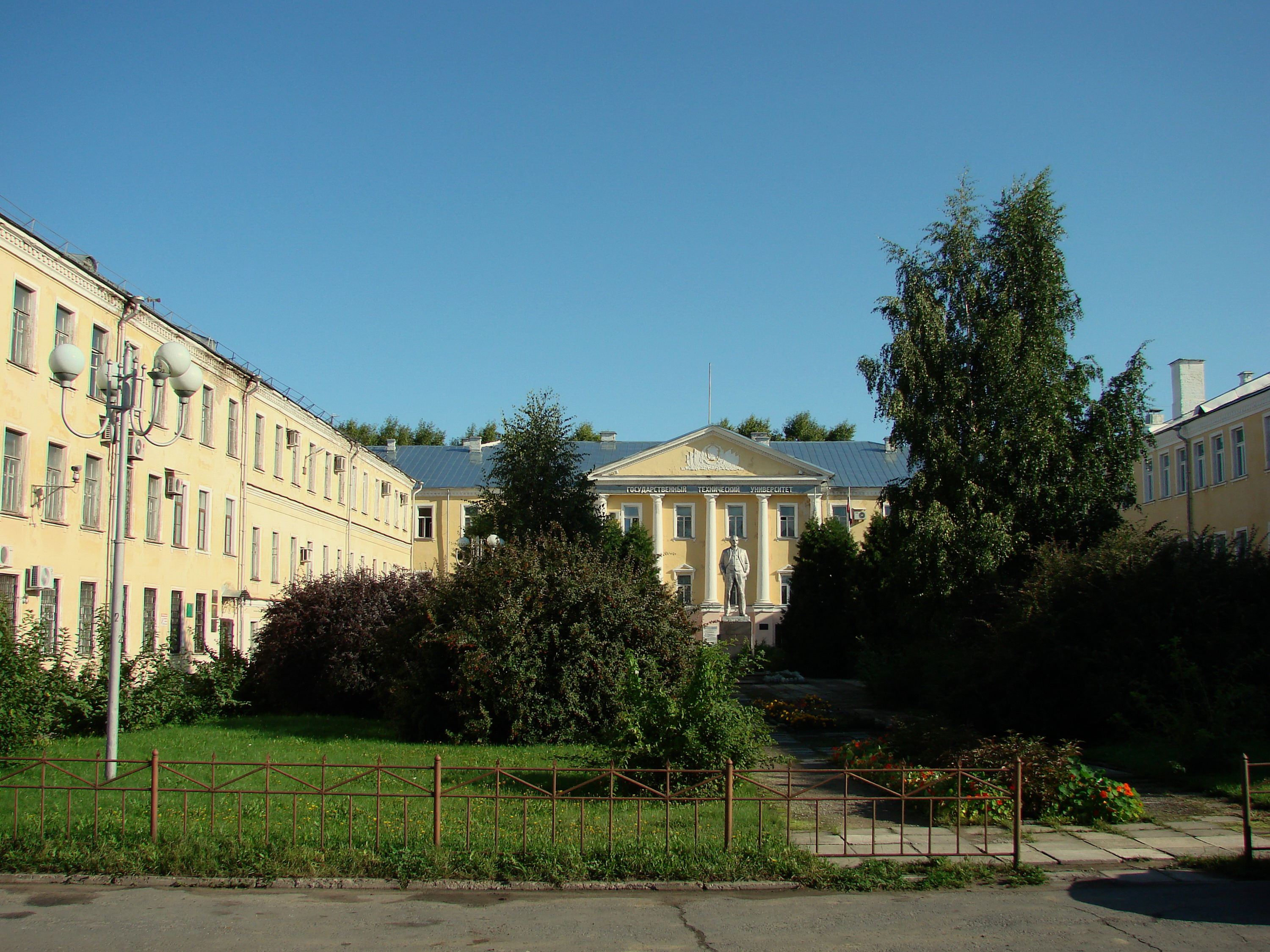 Russia, Vologda, Vologda State Technical University 1781 year